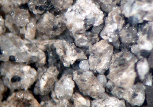 Cardium Sand seen through microscope